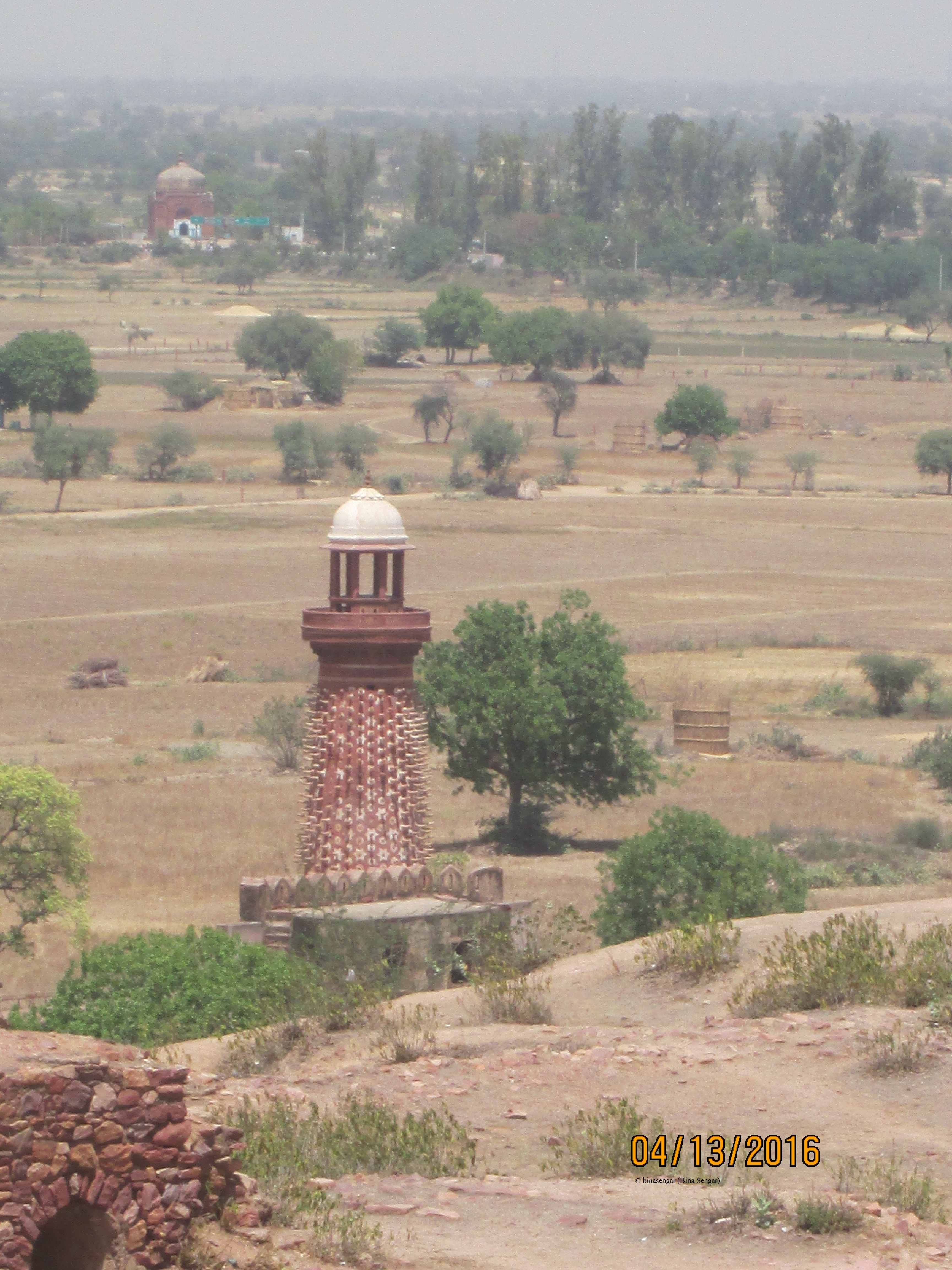 Hiran Minar is a monument constructed during the era of Emperor Akbar in Fatehpur Sikri